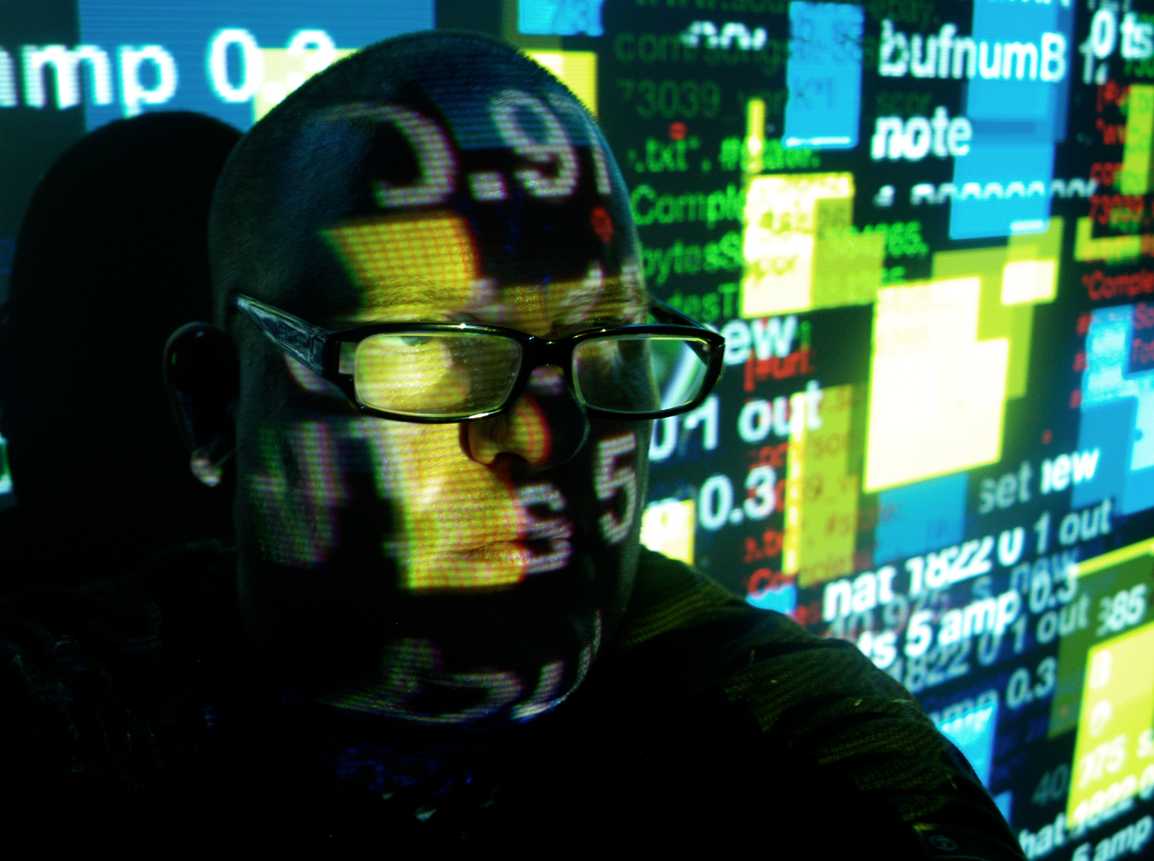 Hans Bernhard from inside the Sound of eBay Installation at Rencontres Internationales Paris/Berlin/Madrid in Madrid, Spain